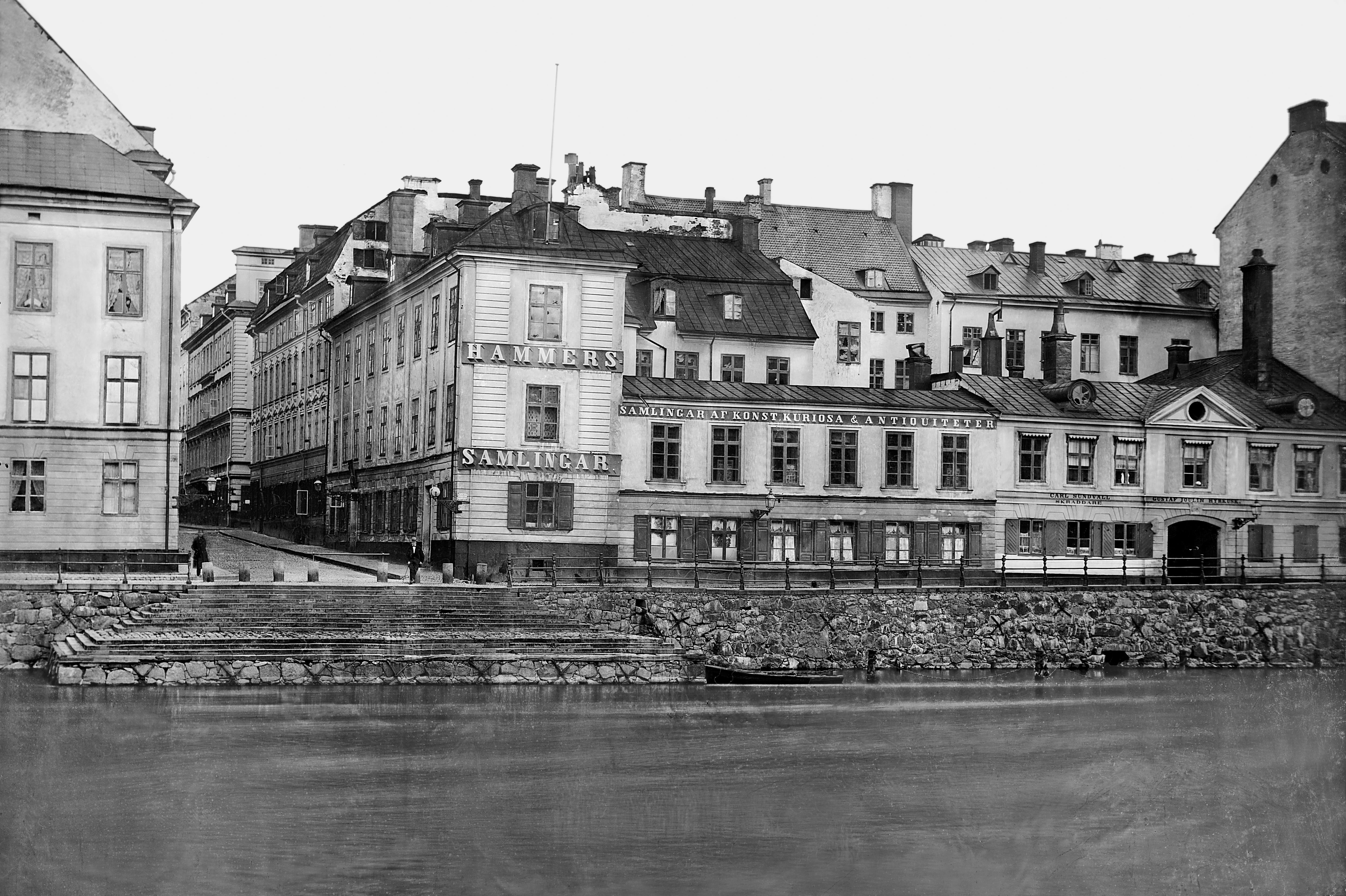 Intersection Strömgatan/Drottninggatan, Stockholm. To the right, Sager House before being rebuilt in 1883 and around 1900 (today the official residence of the Prime Minister of Sweden).